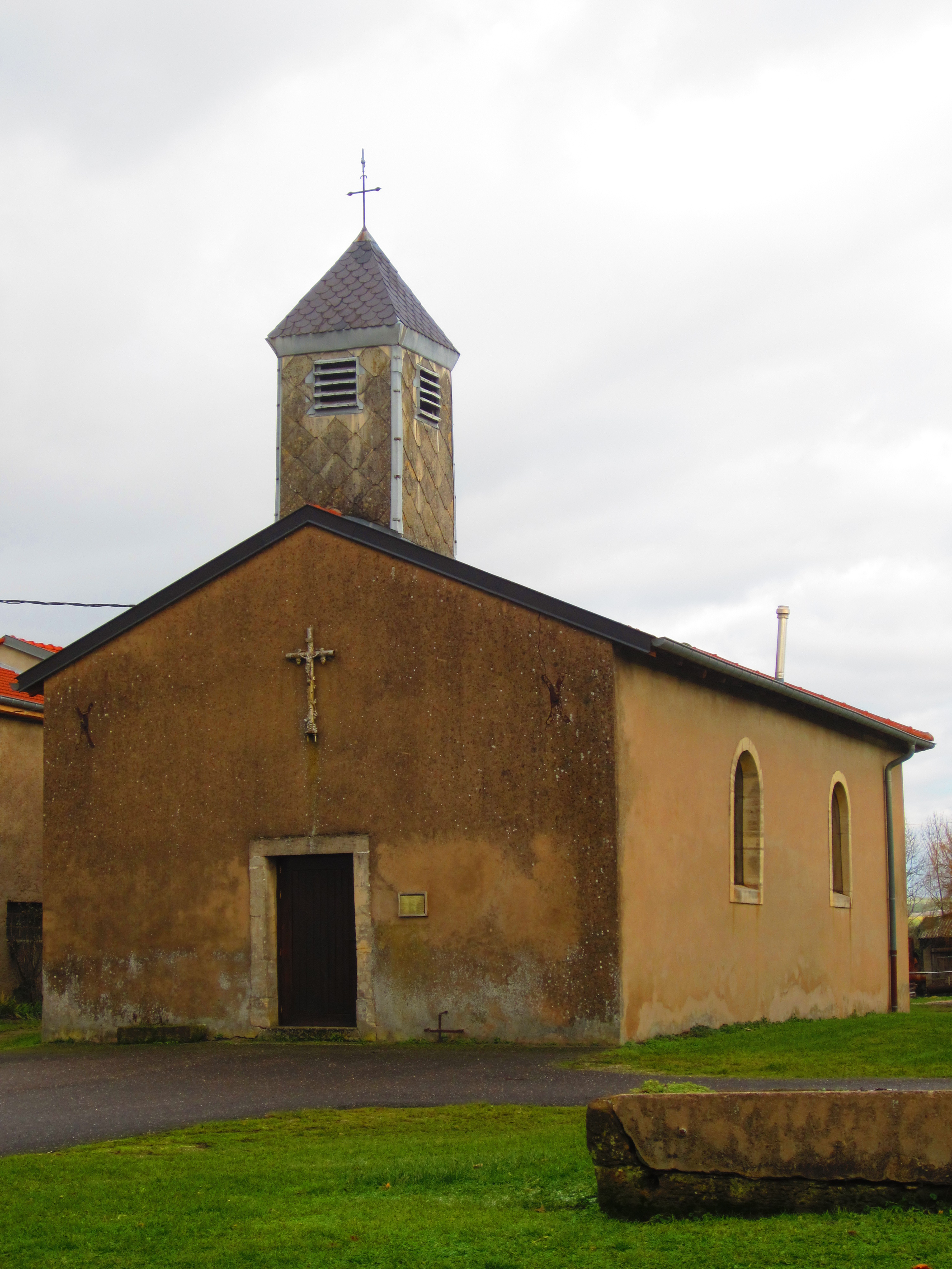 Chateau Brehain church